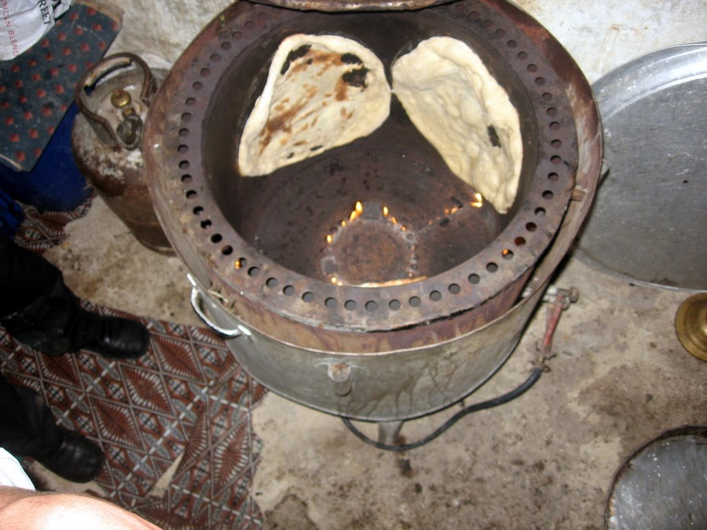 howen for bread